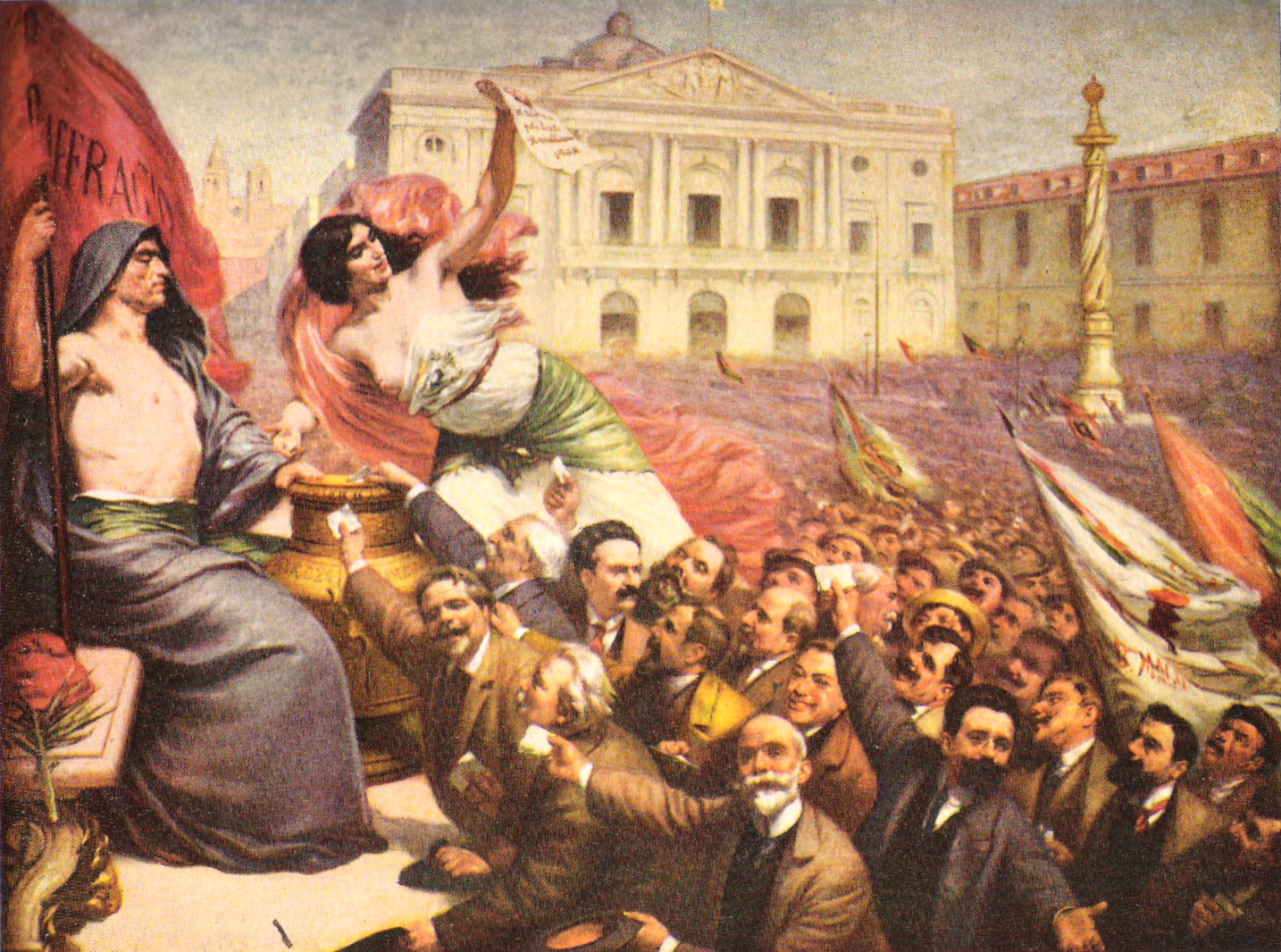 "The Suffrage" (1913), by Veloso Salgado. The oil painting depicts an allegory to the victory of the Portuguese Republican Party (Partido Republicano Português) in the 1908 municipal elections in Lisbon (1 November, 1908). Depicted in the picture are the allegorical figures of Suffrage (the sitting man clutching the urn and the red flag saying "SUFFRAGIO") and Republic (the women leading the crowd to the urn), presiding over the electoral act in the Municipal Square (Largo do Município) in Lisbon, while the crowd gathers around them. Heading the crowd and closest to the urn, are several leaders of the Republican Party, including four future Presidents of the Portuguese Republic (Manuel de Arriaga, Teófilo Braga, Bernardino Machado, and António José de Almeida). In the background, one can see the imposing façade of the Lisbon Town Hall, and on the deep background, to the left, the Lisbon Cathedral (at the time under restoration). This painting is currently in the Museum of Lisbon.